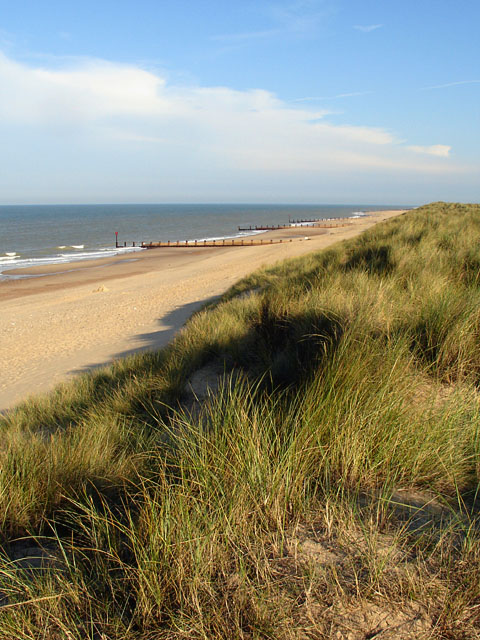 Beach near Horsey Corner.